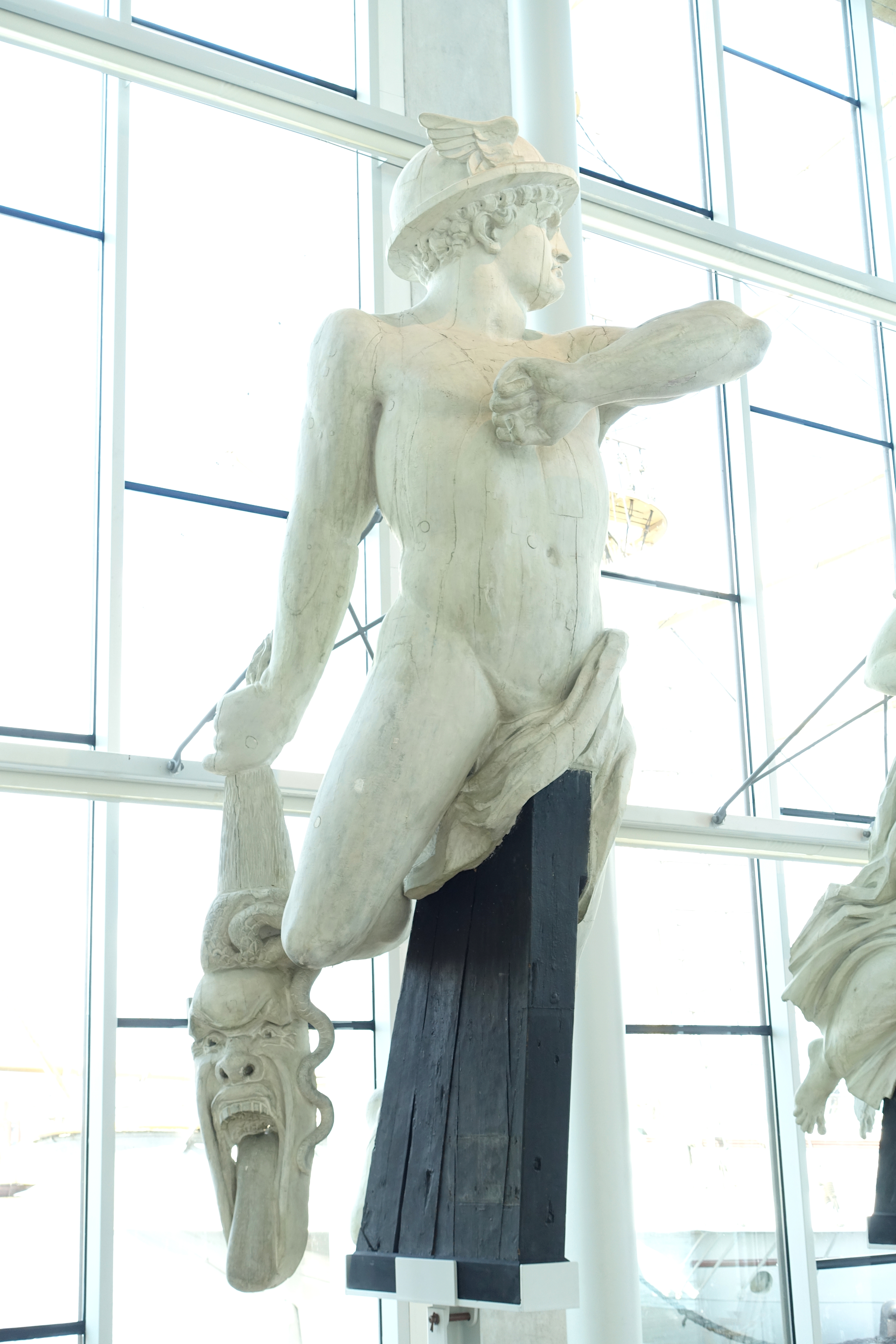 Exhibit in the Marinmuseum, Karlskrona, Sweden. This work is old enough so that it is in the public domain.